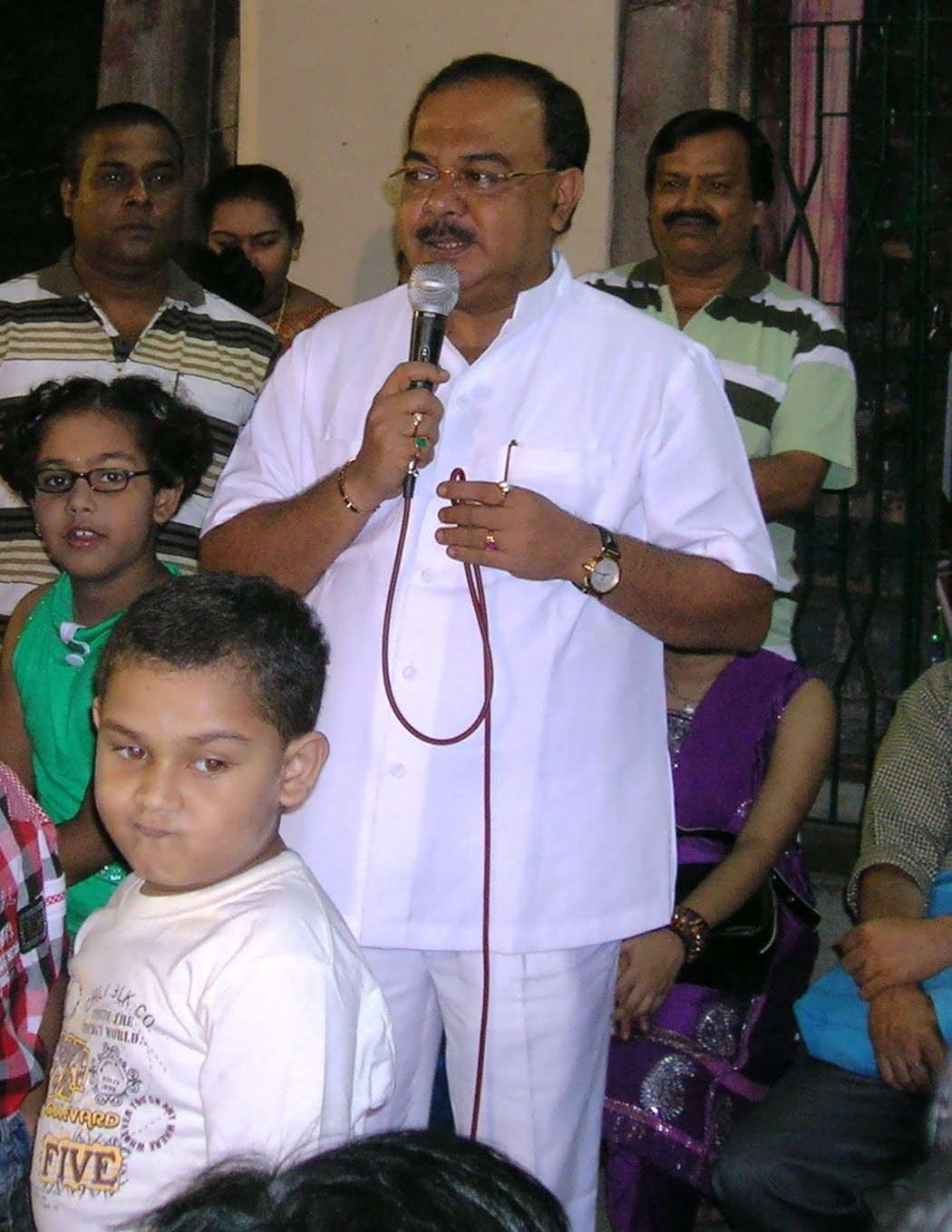 Sovan Chatterjee, the current Mayor of Kolkata at Barisha Sarbojanin Durga Puja pandal, Kolkata.